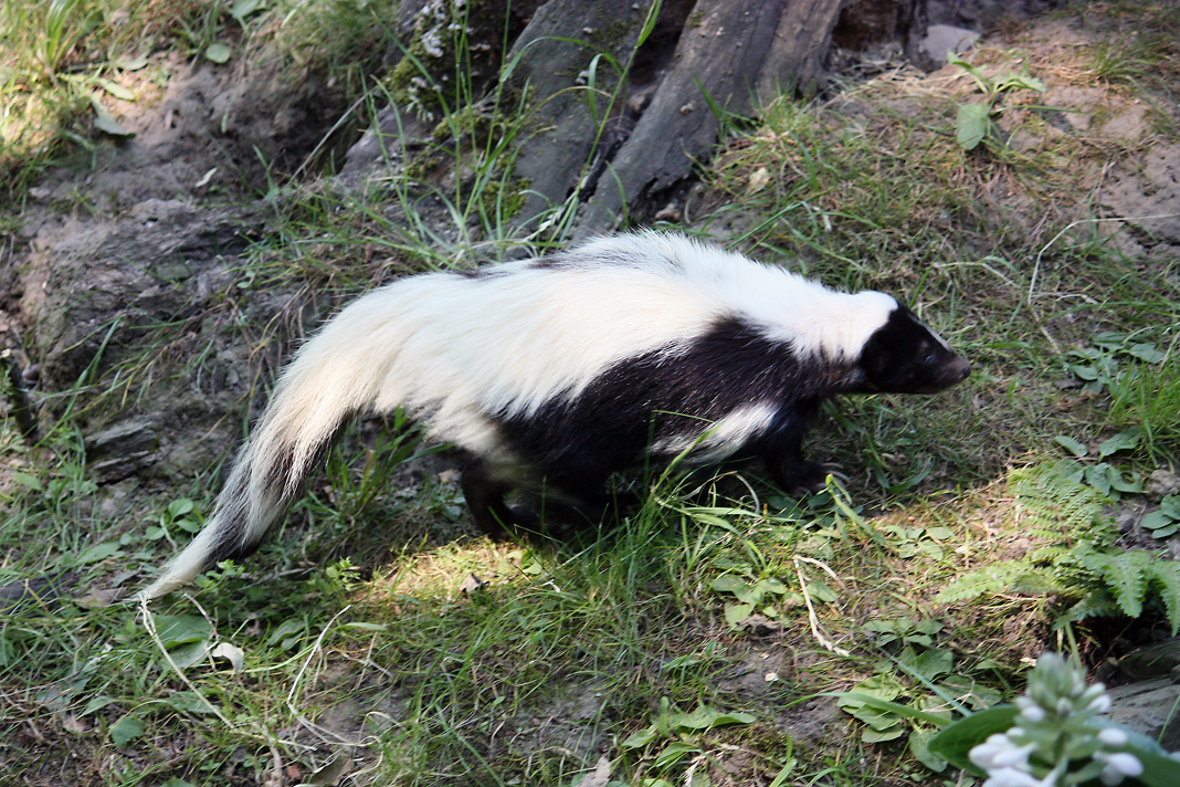 Hooded Skunk (Mephitis macroura) in ZOOM Gelsenkirchen (Germany)